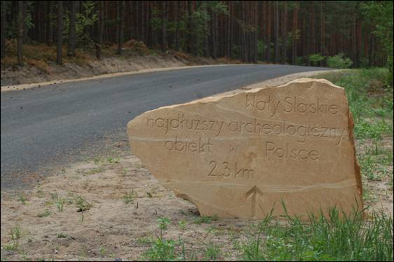 Silesia Wall near Szprotawa